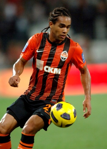 Alex Teixeira playing for Shakhtar in 2011